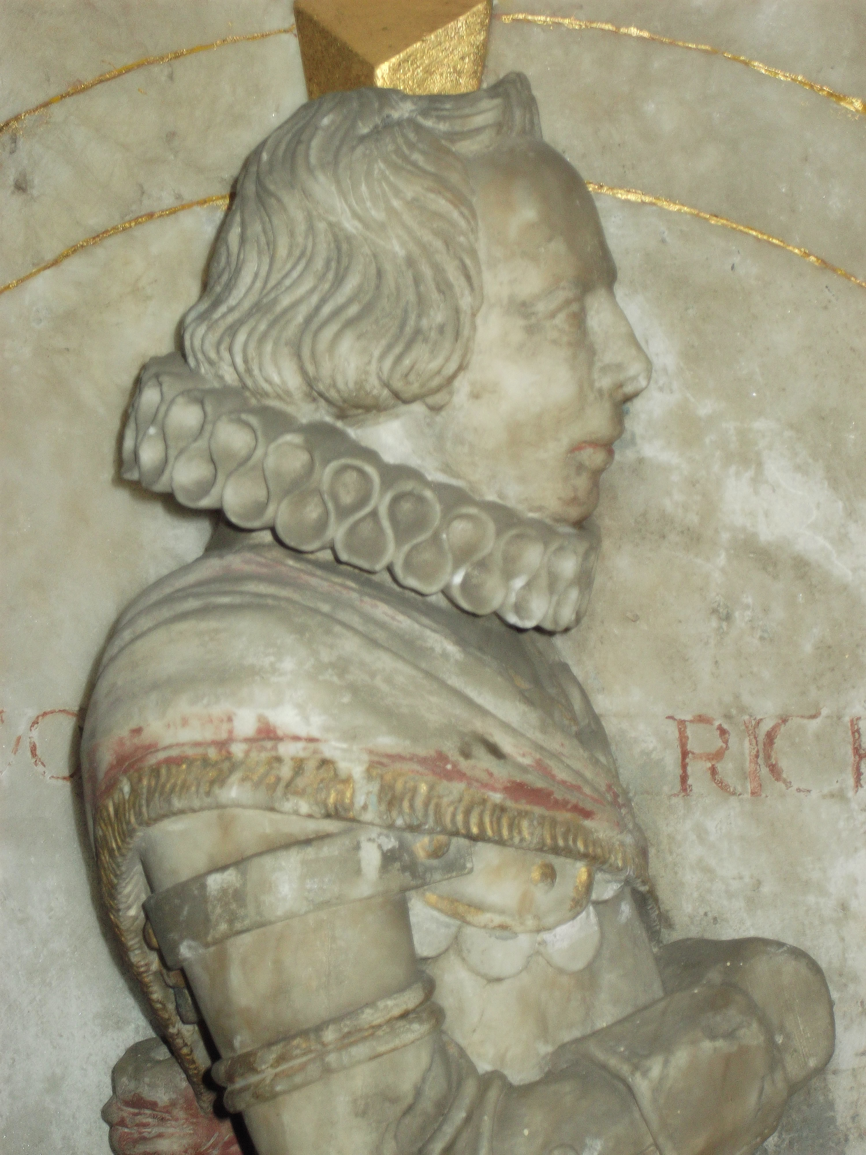 Close up of Thomas Wolryche, son of Francis and Margaret, portrayed on his parents' tomb. St Andrew's church, Quatt, Shropshire.